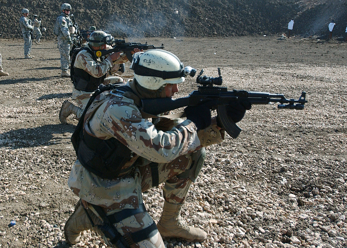 Feb. 18, 2006 AL HILLAH, Iraq - Iraqi soldiers perform a close quarters live-fire exercise Monday at 1st Battalion, 2nd Brigade, 8th Iraqi Army Division range complex. The soldiers, under the watchful eye of Soldiers from Troop C, 1st Squadron, 10th Cavalry Regiment, 2nd Brigade Combat Team, 4th Inf. Div., graduated from the advanced warrior skills training program after four weeks of training.